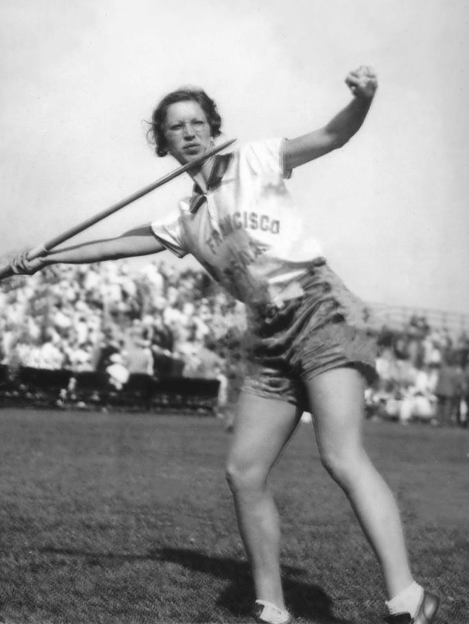 1936 Press Photo Martha Worst tosses javelin on Brown Field - sbs02672